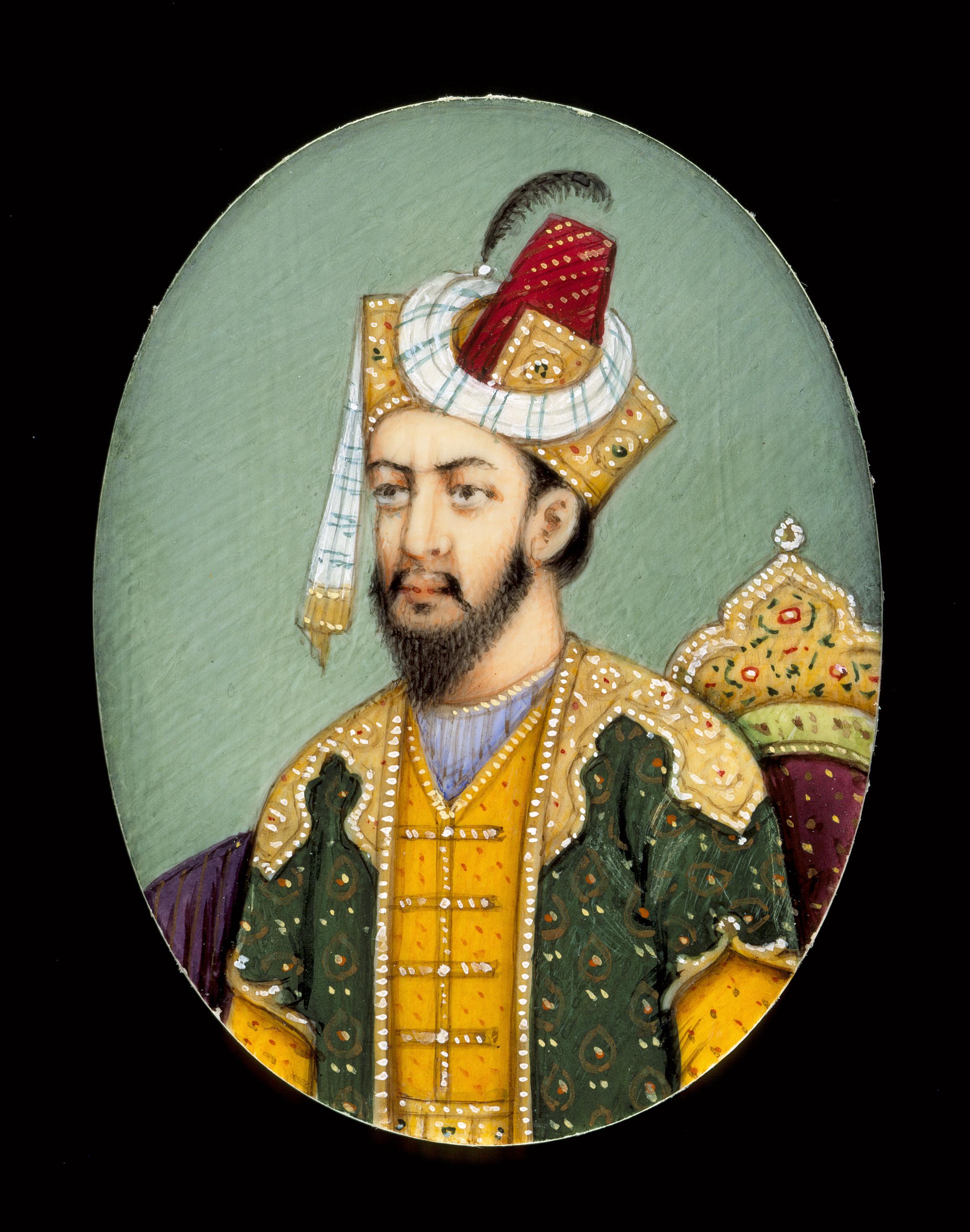 "India, Delhi, South Asia Emperor Humayun (reigned 1530-1540/1555-1556), circa 1875 "